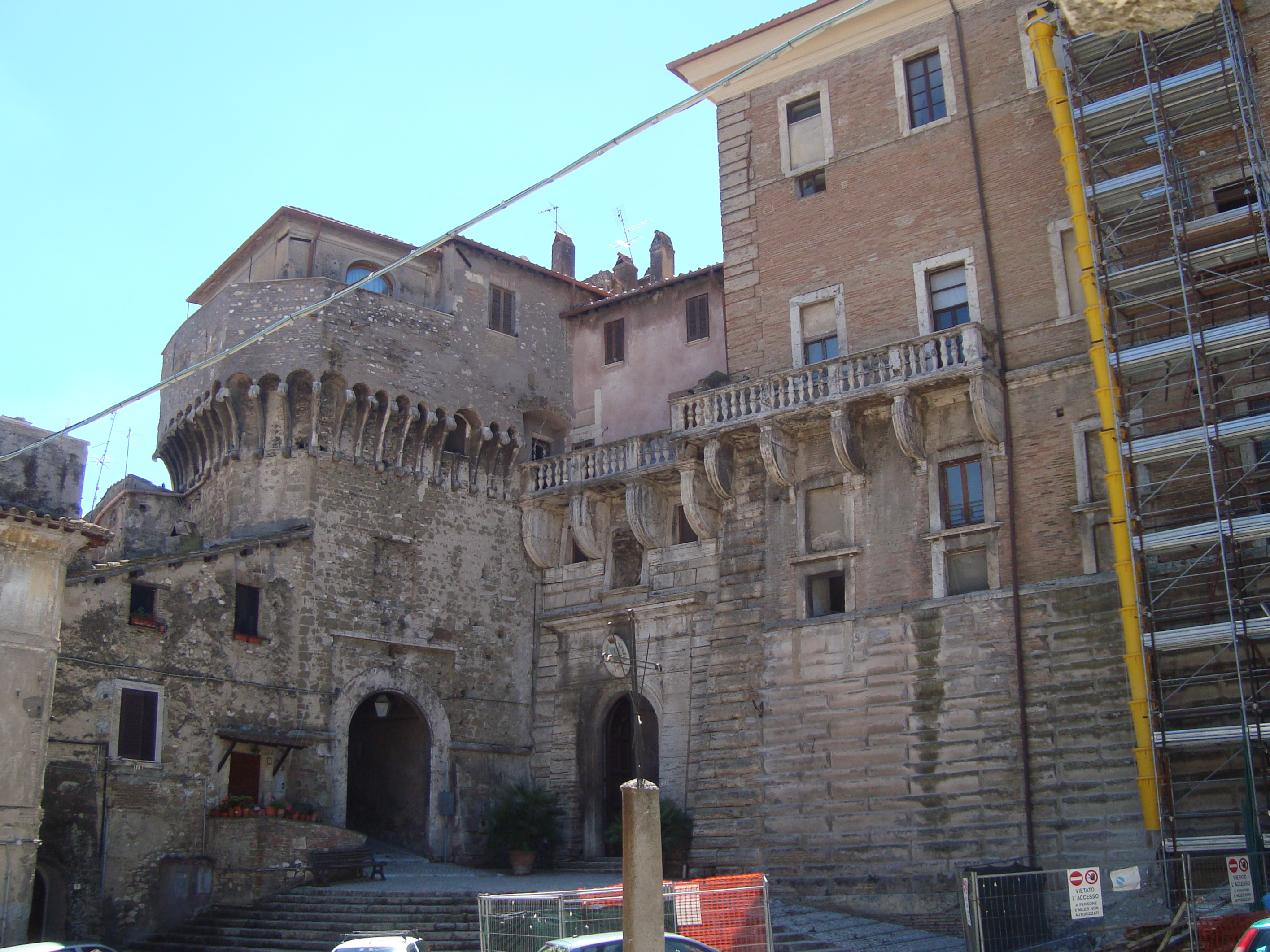 View of the castello in Mentana